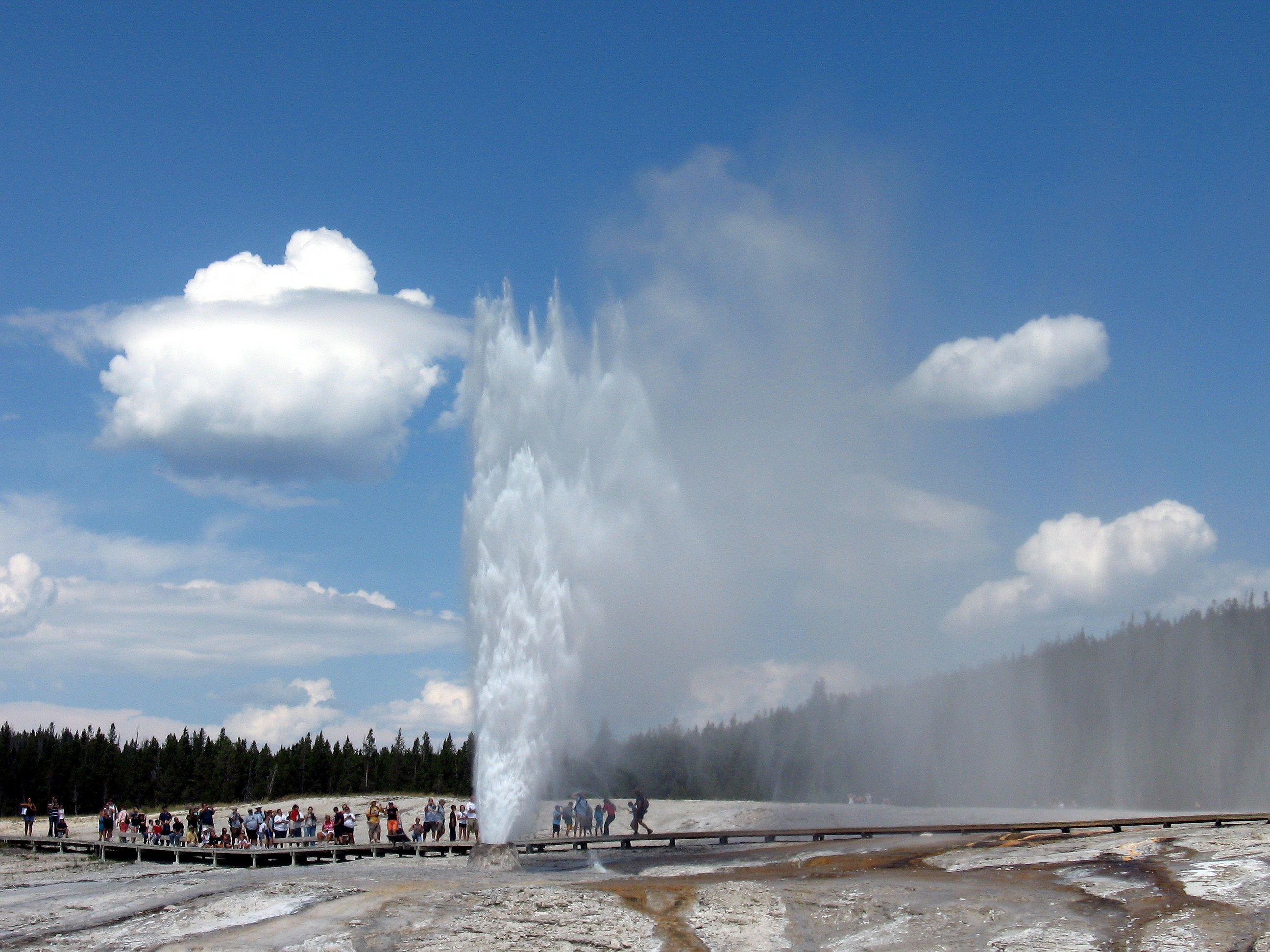 Beehive Geyser Erupting in Yellowstone National Park.